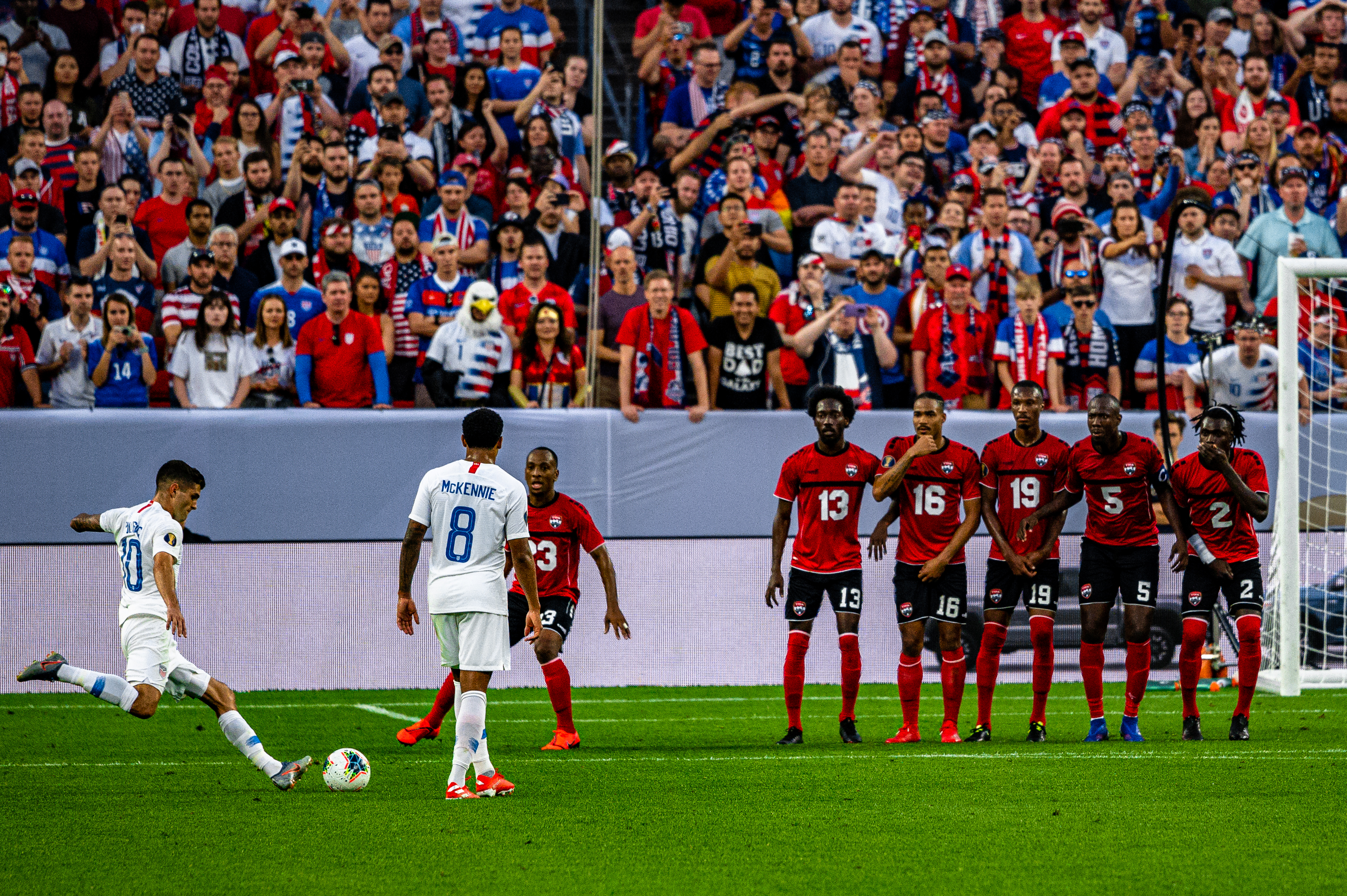 USMNT vs. Trinidad and Tobago